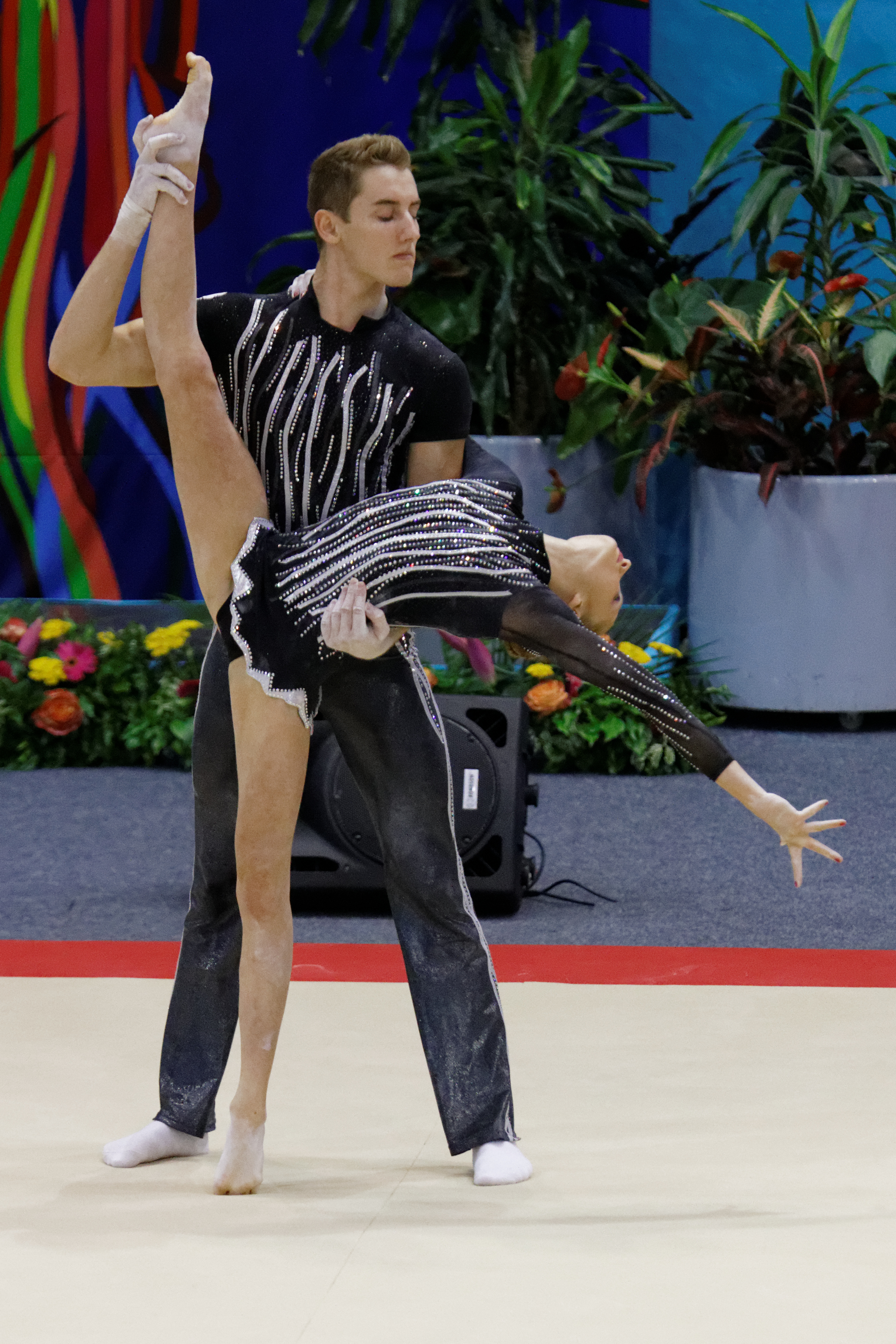 2014 Acrobatic Gymnastics World Championships, 10th-12 July, Levallois-Perret, France. Finals: mixed pair. France.